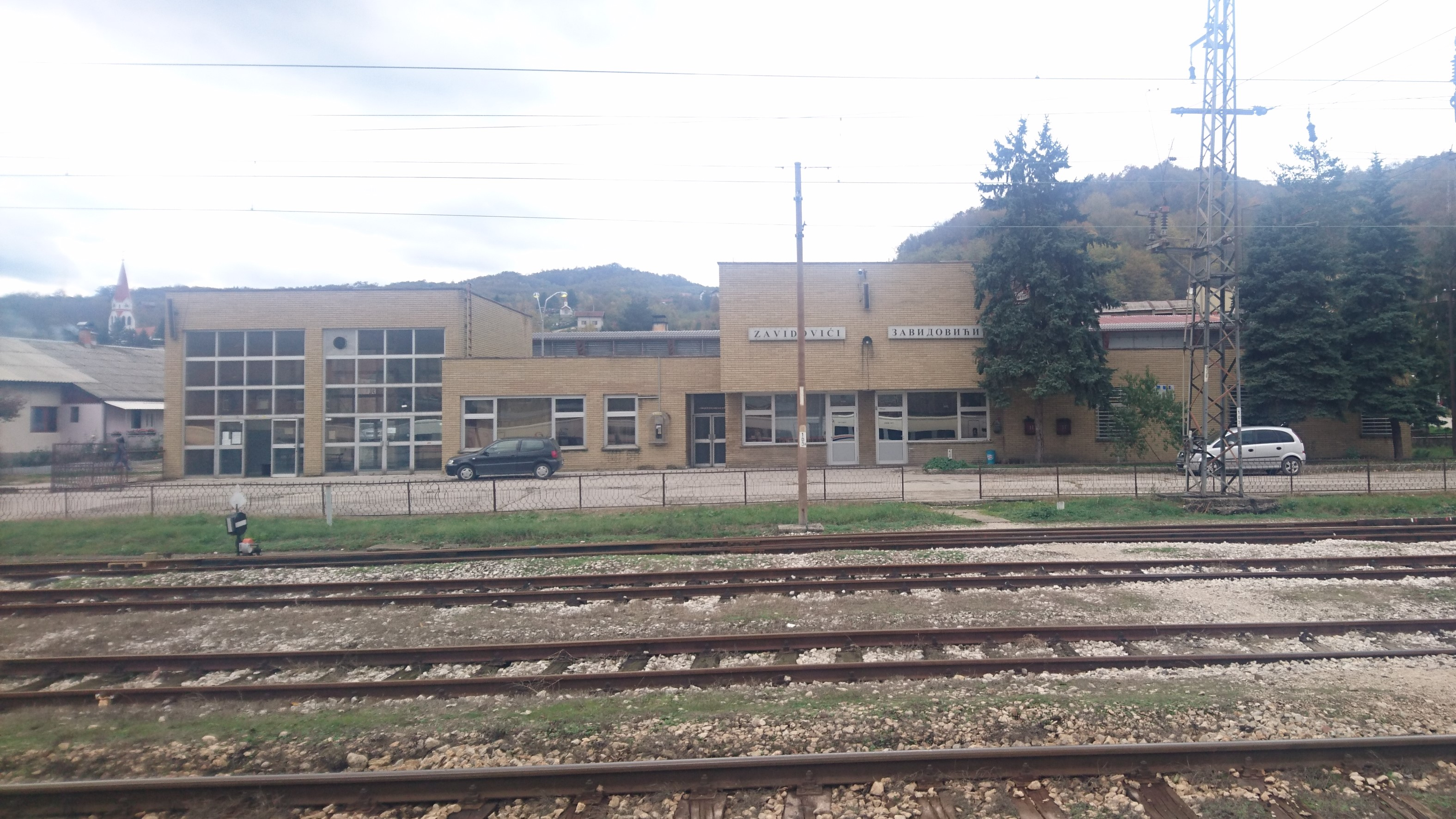 The train station in Zavidovići, Bosnia and Herzegovina